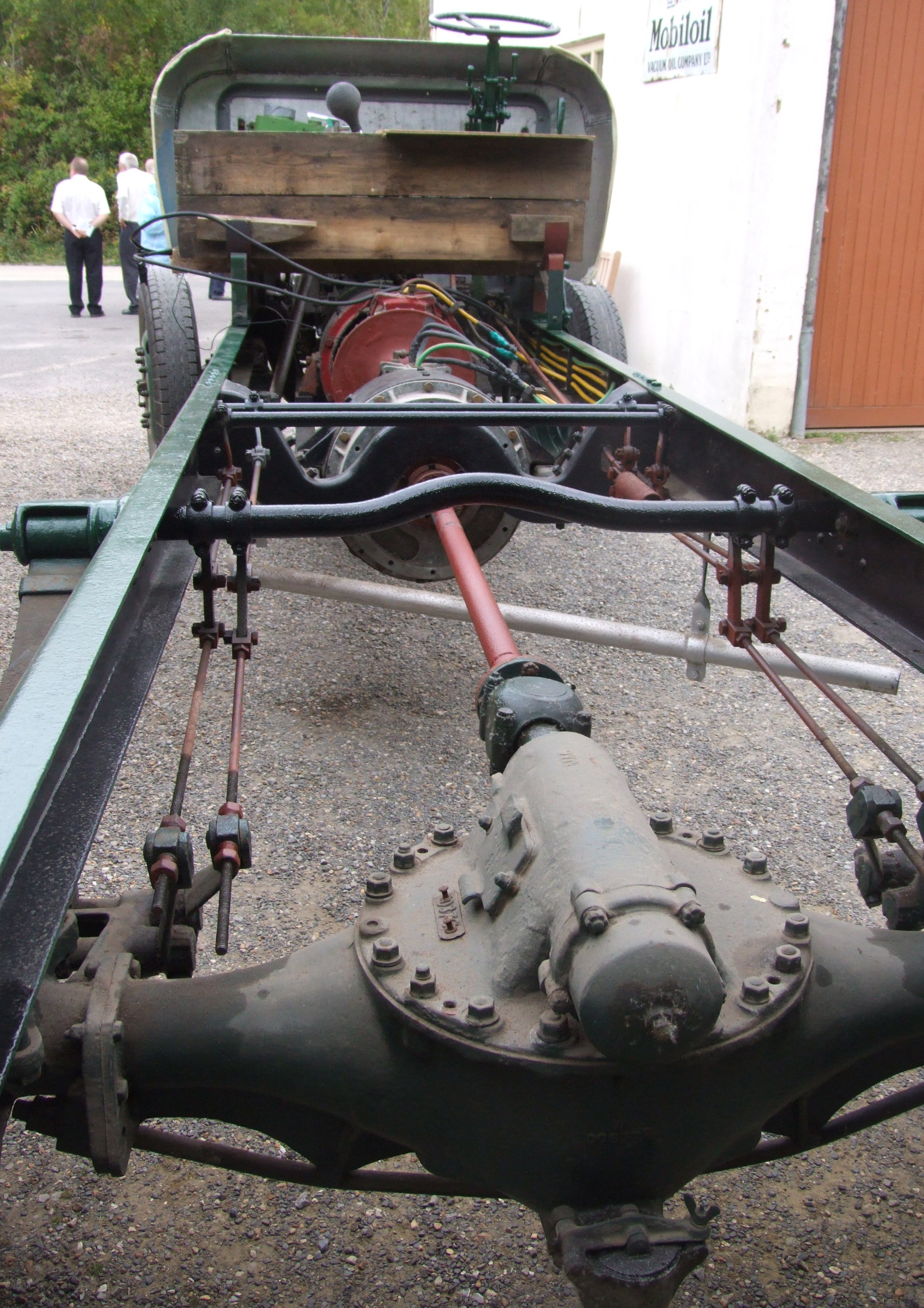 1923 Tilling-Stevens Petrol-electric chassis at Amberley Museum and Heritage Centre, West Sussex, seen from the rear, showing the driveshaft from the electric motor to the gearbox